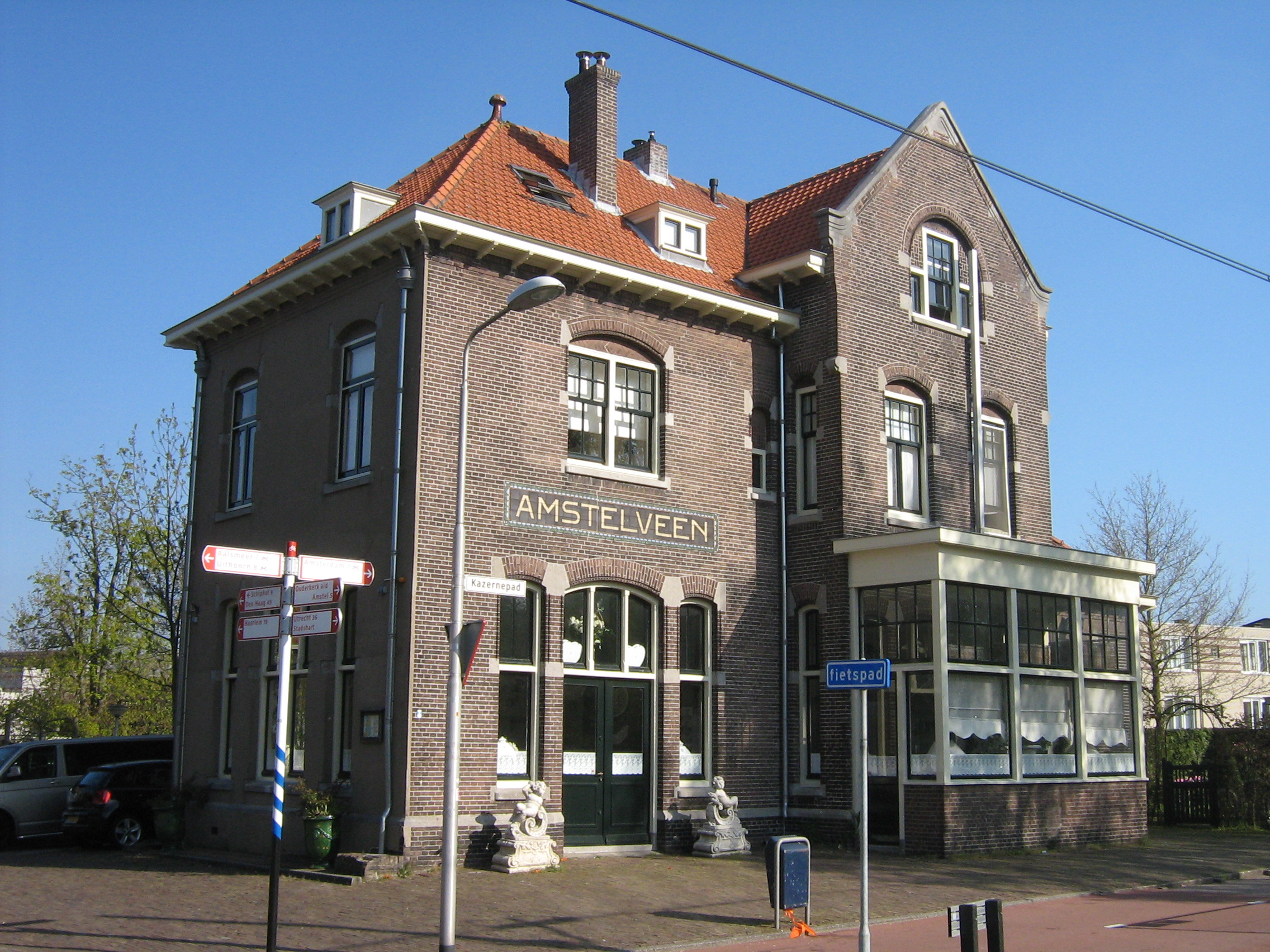 Former railway station at 28, 28B and 30 Stationsstraat, Amstelveen, the Netherlands, seen from the southeast. This is a municipal monument registered under number 0362/10087.